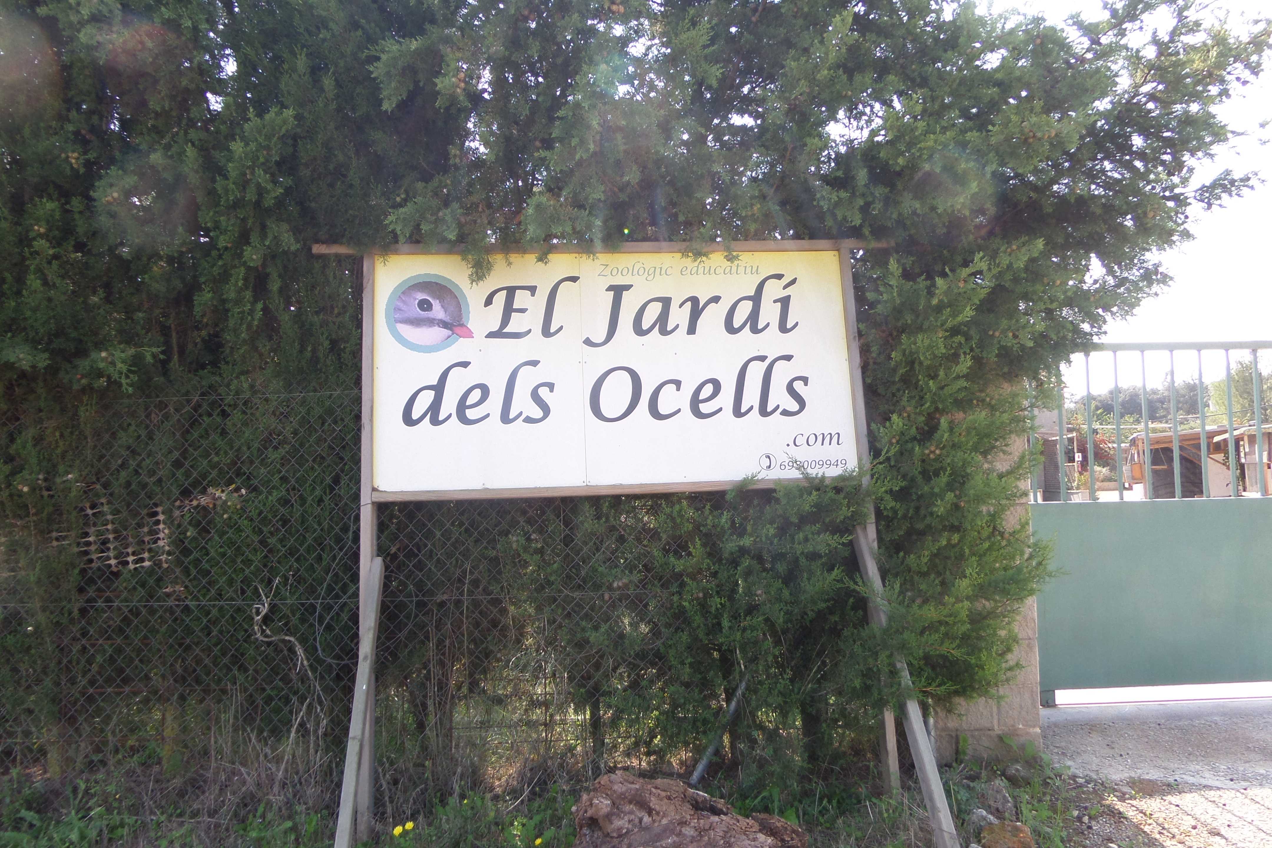 Name of El Jardí dels Ocells near the entrance of this bird park.